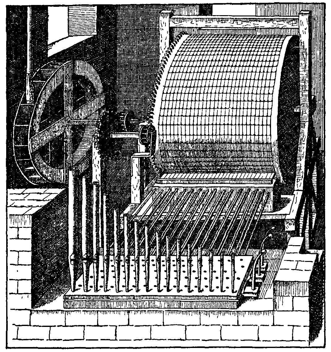 Illustration from 1911 Encyclopædia Britannica, article BARREL-ORGAN. Fig. 1.—Large stationary barrel-organ worked by hydraulic power, from Solomon de Caus, Les Raisons des forces mouvantes (Frankfort-on-Main, 1615).